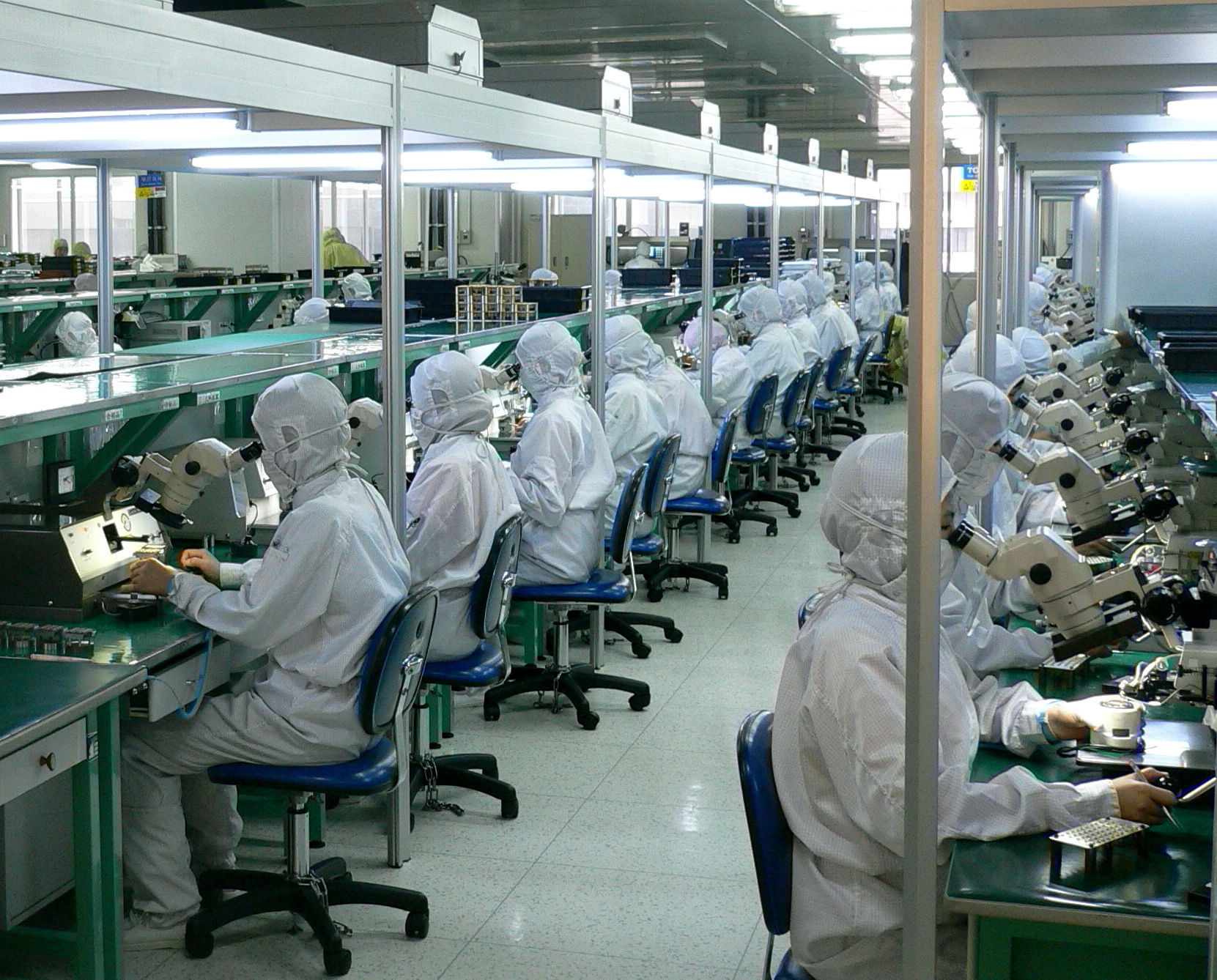 "Thousands of workers in this factory assembling and testing fiber optic systems. In many places of the Chinese economy, human labor replaces automation (in contrast to Japan, for example)."